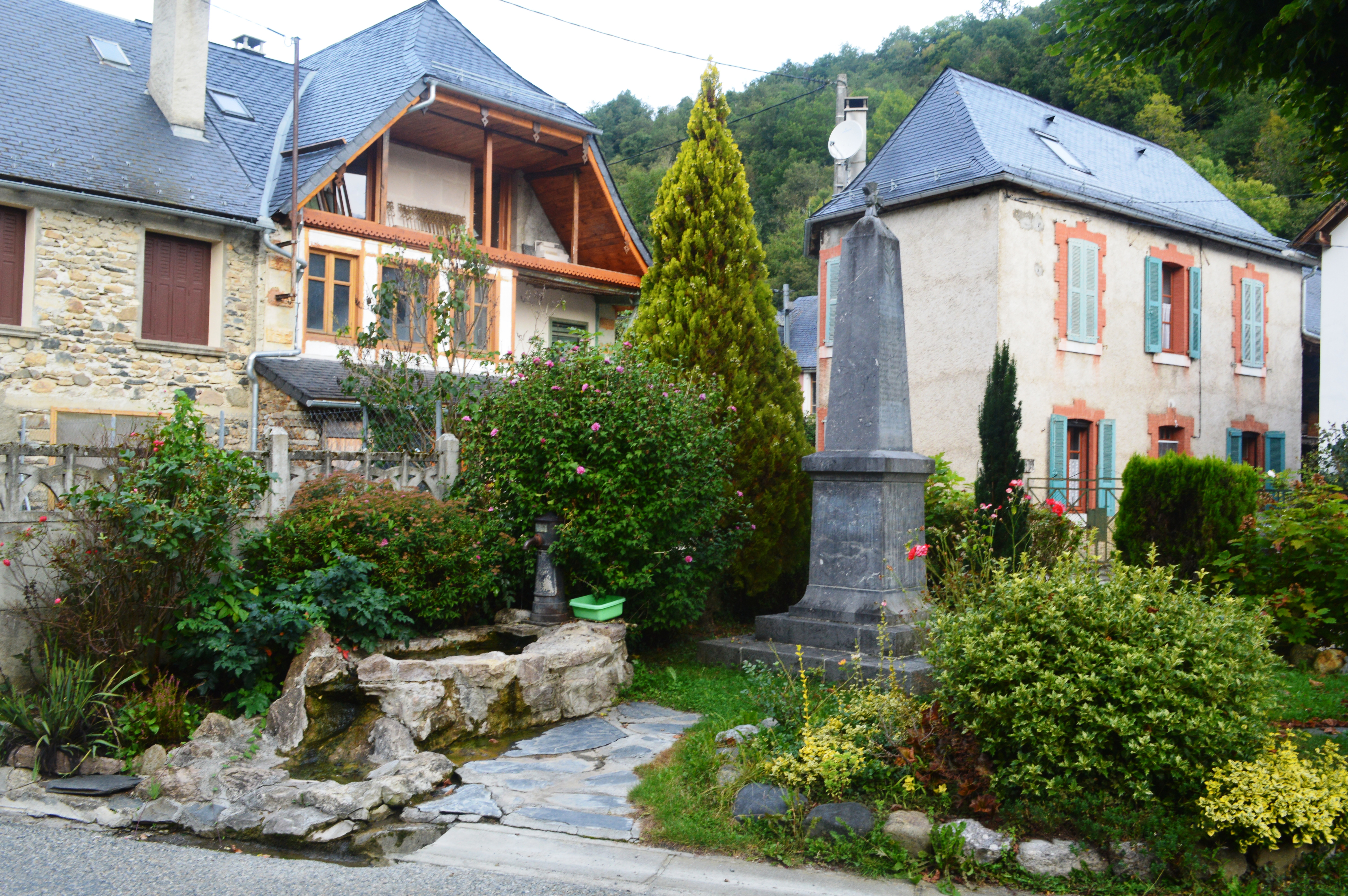 The Town Square